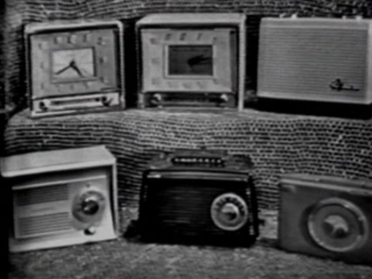 A range of radios from the 1950s by an American company called Sylvania.